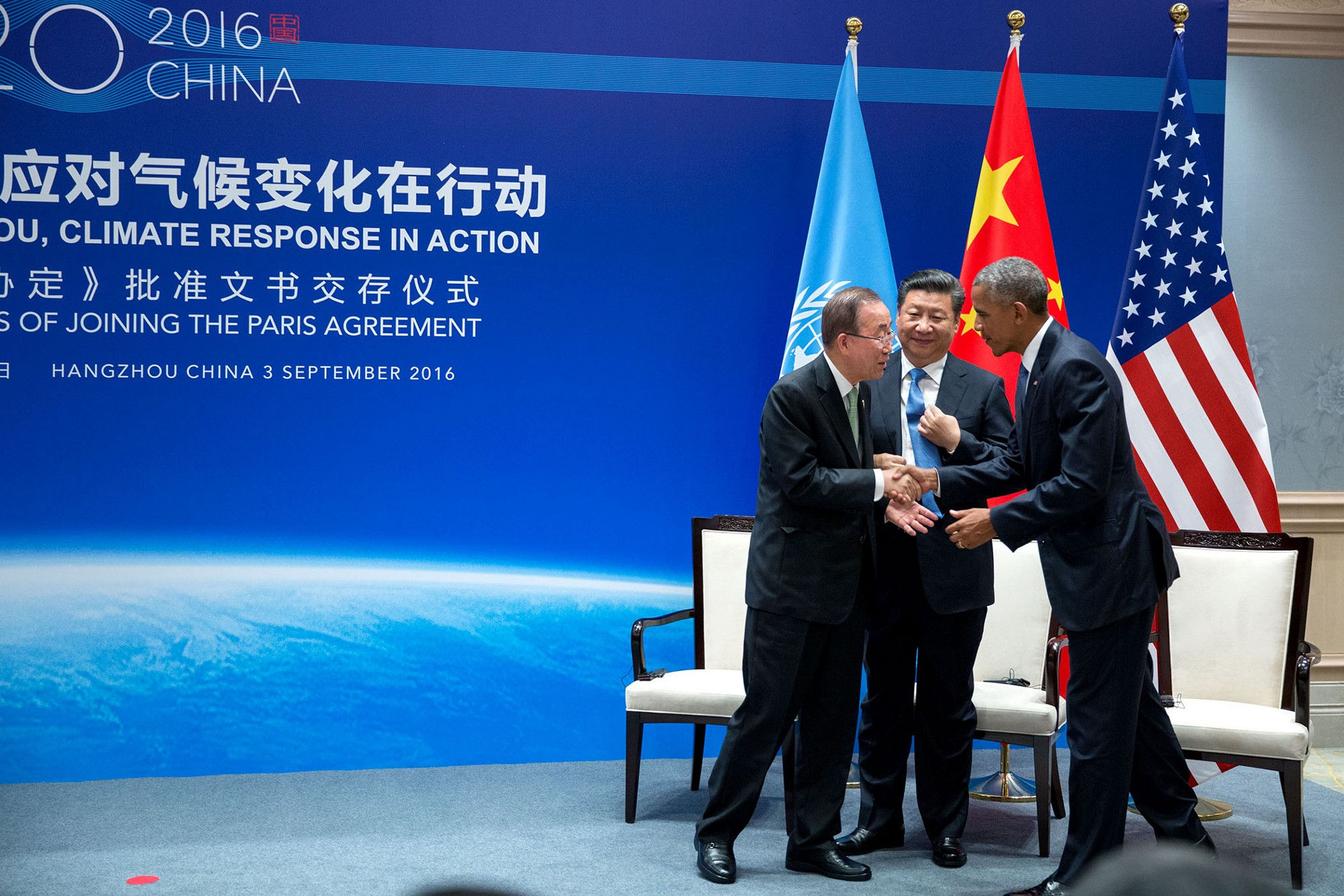 United Nations Secretary General Ban Ki-moon, Chinese President Xi Jinping, and U.S. President Barack Obama greet each other at a climate event in Hangzhou, China on September 3, 2016.